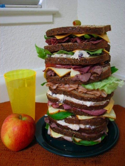 A Dagwood sandwich. The sandwich took 43 minutes to construct and partially toppled twice during construction. The final weight of the sandwich was 5 pounds 4 ounces (2.4 kilograms). Contents of the sandwich include: 1 lb. bread (whole grain) 1 lb. 4 oz. chicken salad (10 oz. chicken, 6 oz. grapes, 4 oz. mayonaisse) 9 oz. sliced turkey 8 oz. roast beef 8 oz. pastrami 9 oz, cheese (4 oz. cheddar, 5 oz. Muenster) 7 oz. tomato 4 oz. mustard 5 leaves of butter lettuce 1 olive The sandwich took just under two hours to consume.